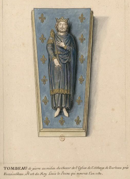 Le tombeau de Louis dans l'abbaye de Barbeau.